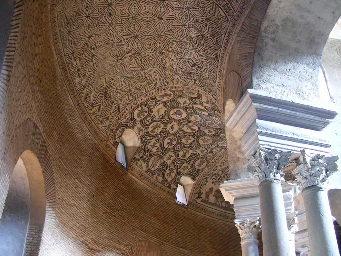 Rome, church of Santa Costanza, interior